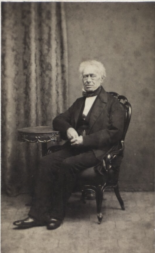 Henrik Gamst (1788-1861), Danish businessman